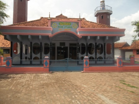 mesjid sindang